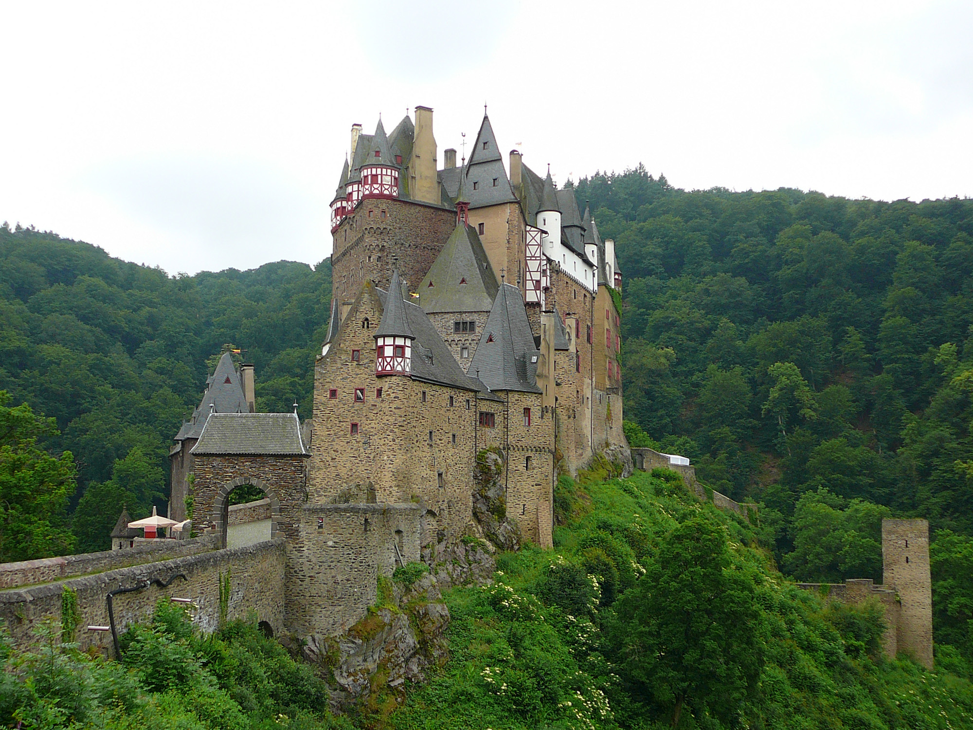 The medieval Burg Eltz in Rhineland-Palatinate, Germany.